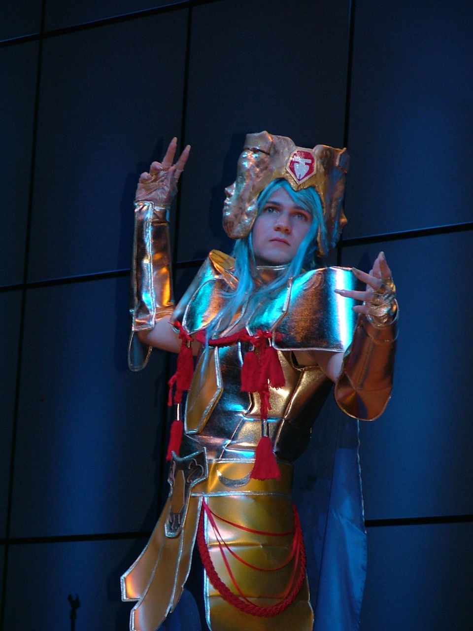 Saga de Géminis